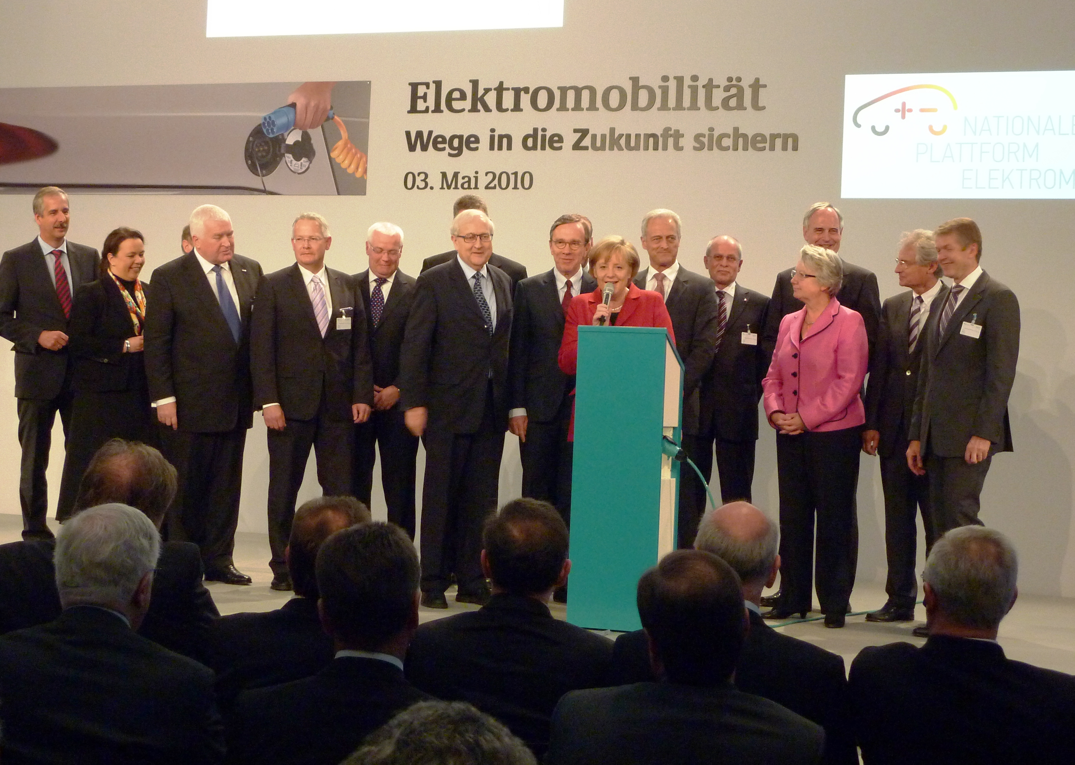 Inauguration of the German National Platform for Electromobility - Summit